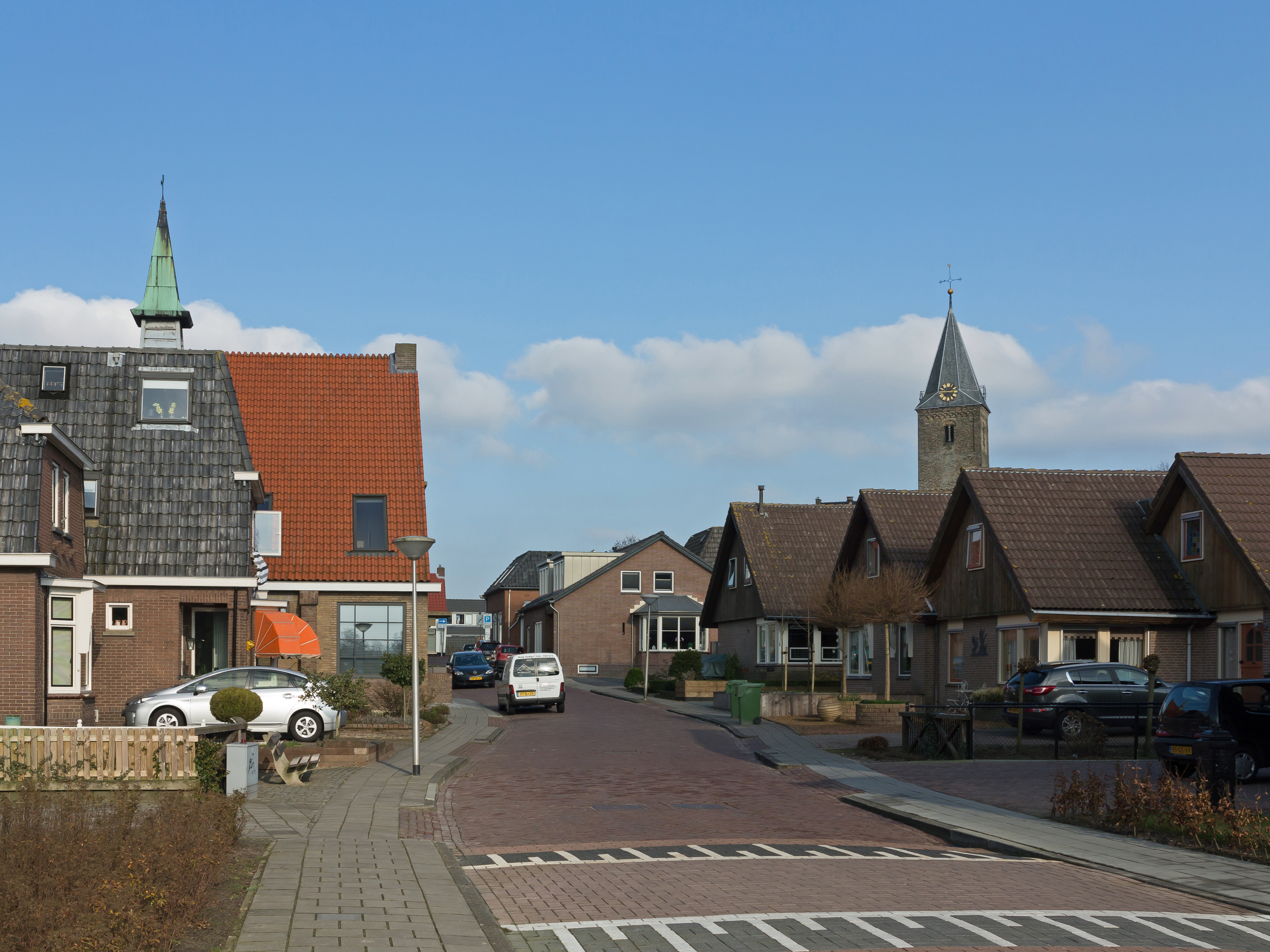 IJsselmuiden, two reformed churches